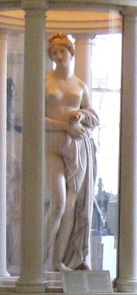 Tinted Venus